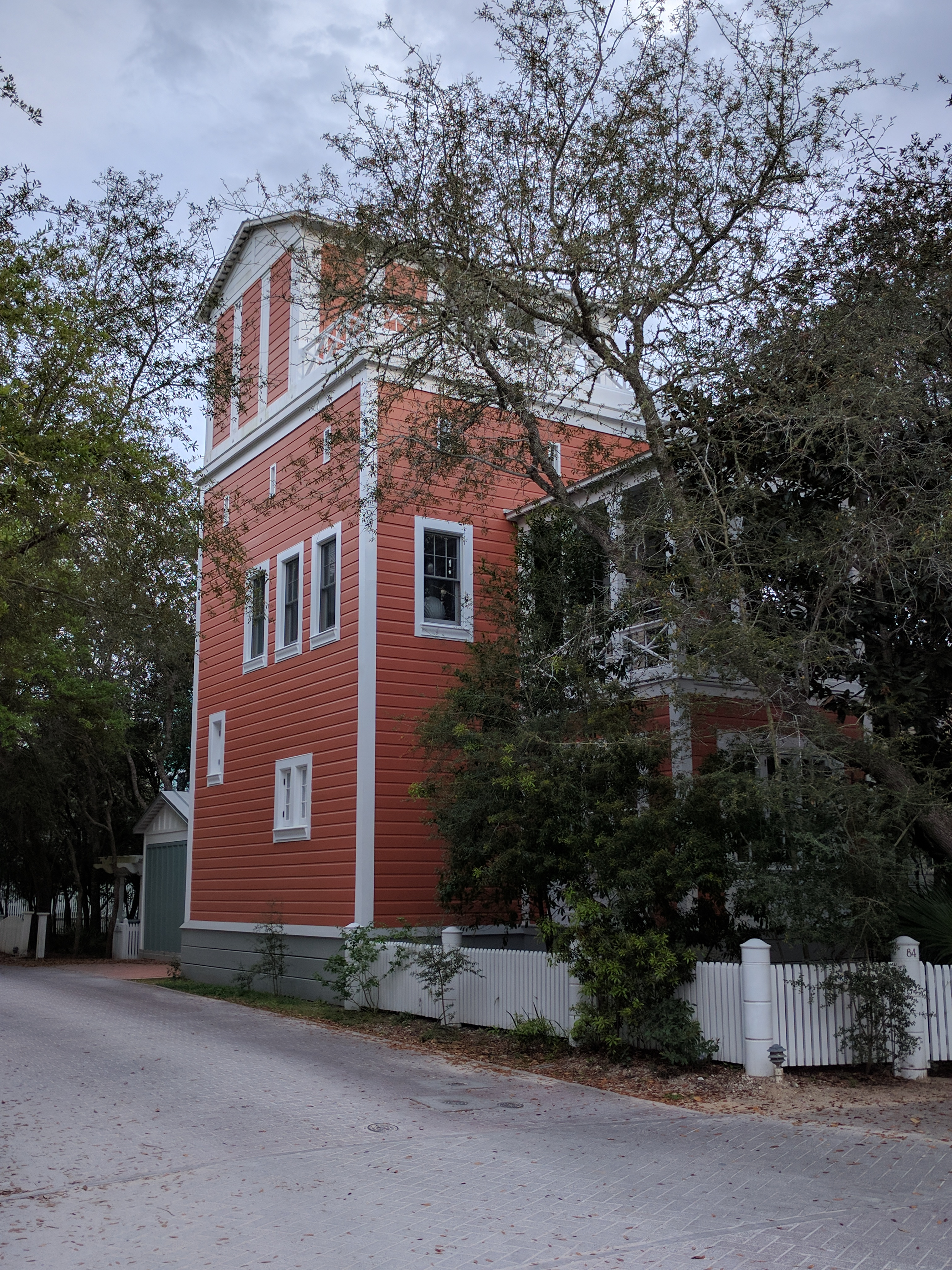 Krier House in Seaside, FL